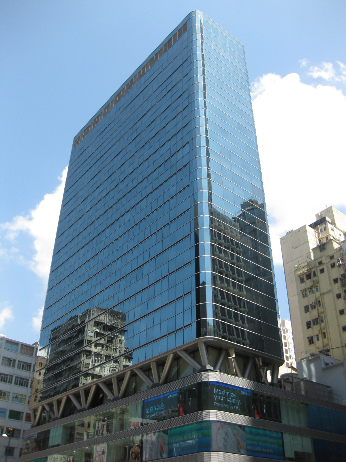 Wai Fung Plaza, at the corner of Argyle Street and Nathan Road (No. 664)